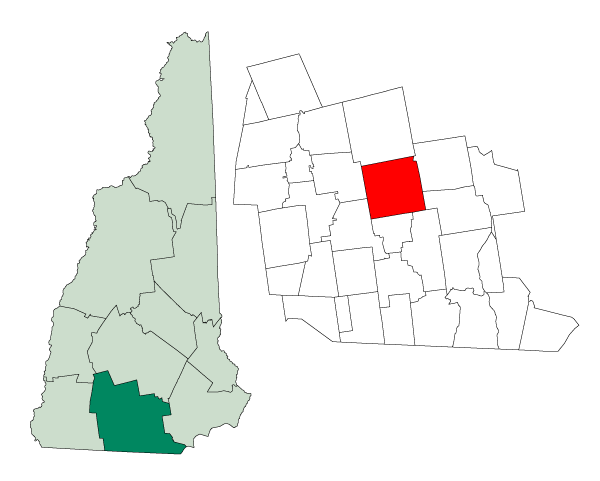 Map of a municipality in Hillsborough County, New Hampshire